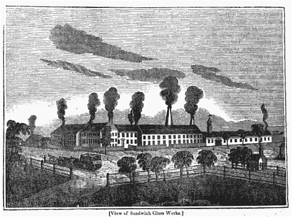 Sandwich Glass Co., Massachusetts. Illustration from: American Magazine of Useful and Entertaining Knowledge. vol.1, 1835.